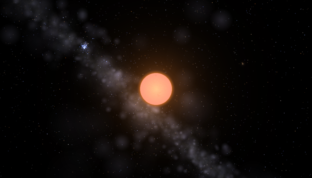 Chi Cygni, pulsating red giant star.